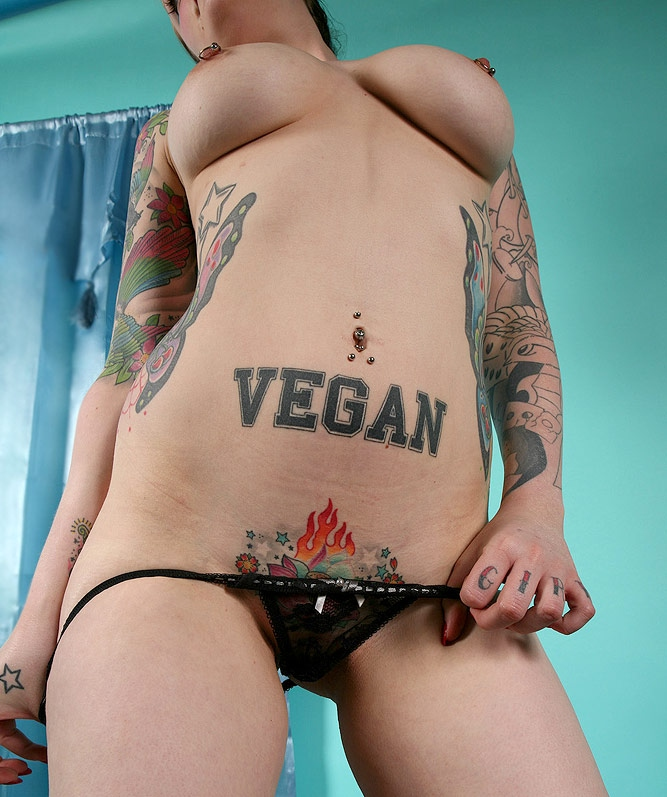 Vegan life